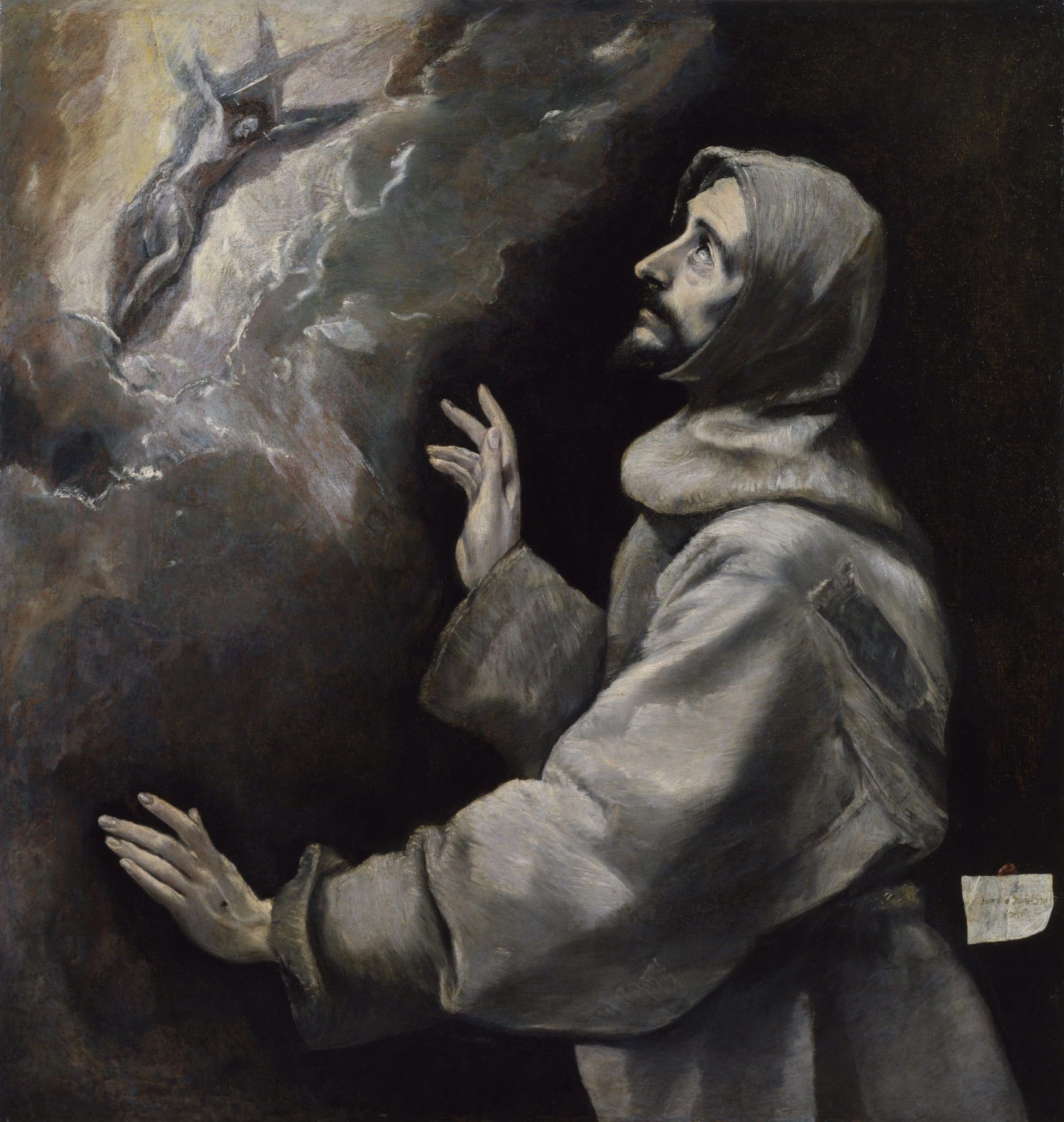 In 1226, St. Francis of Assisi had a vision of a seraph (the highest order of angels) with an image of the crucified Christ amid its six wings, from which he miraculously received the stigmata - the wounds inflicted upon Christ during the Crucifixion. El Greco depicts the wounds on Francis's elegant hands, and the saint's transfixed gaze conveys the spiritual impact of the experience. The absence of setting, the brilliance of the apparition, and the elongation of the figure contribute to an other-worldly effect. This is accentuated by the white paint and loose brushstrokes, which suggest rather than define the forms and which the artist learned in Venice before settling in Spain. The effect is magnified by the contrast of what appears to be a real piece of paper, stuck to the canvas and bearing the words "Domenikos Theotokopoulos Made This" in Greek, expressing El Greco's pride in his origins. The miraculous vision was a favorite subject of El Greco's, and he, himself a lay Franciscan, created a quintessential expression of the mystical and emotional spirituality of the contemporary Counter-Reformation movement.